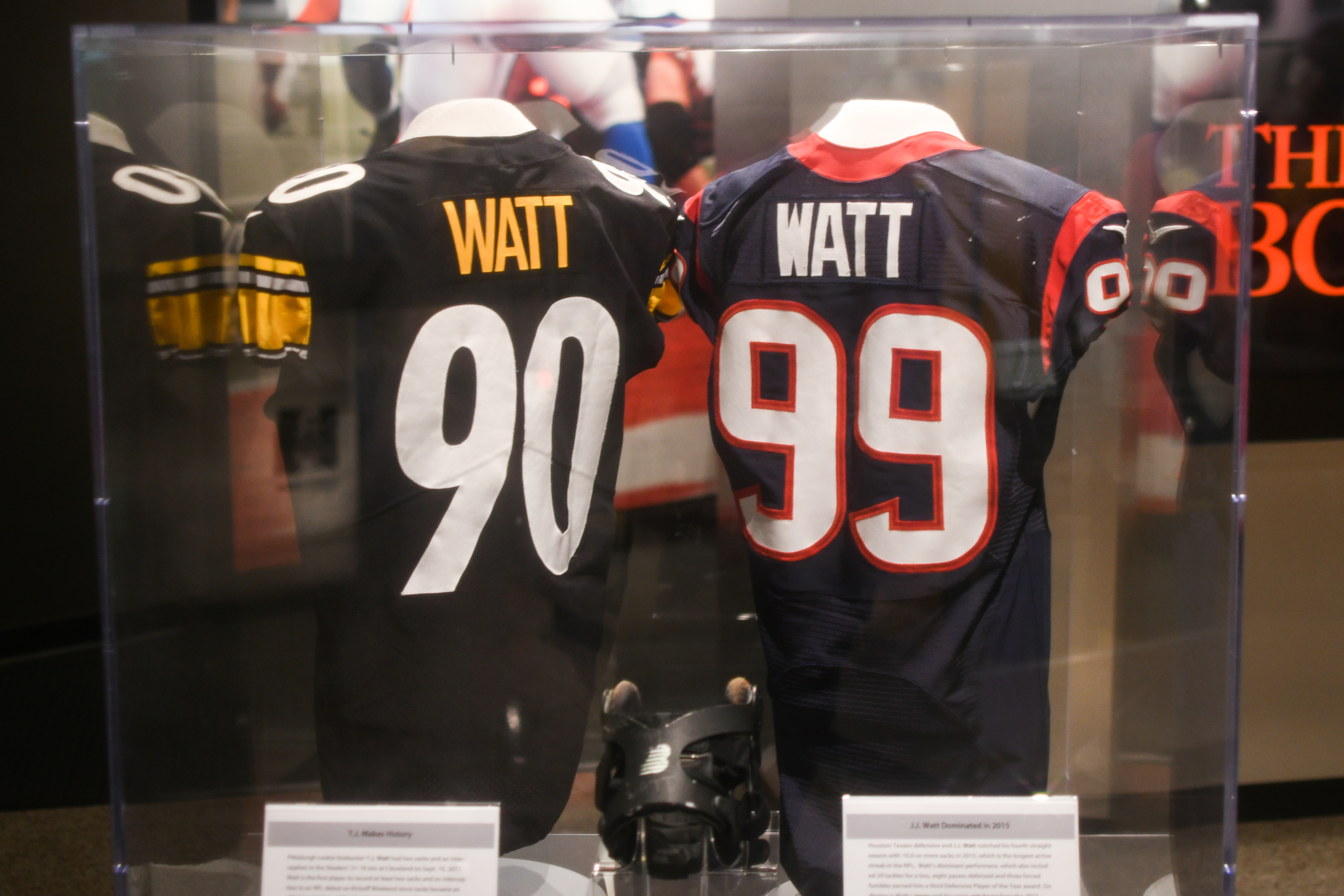 Trent Jordan ("T.J.") Watt's uniform won with the Steelers (left) and Justin James ("J.J.") Watt's uniform worn with the Texans (right), both exhibited at the Pro Football Hall of Fame.